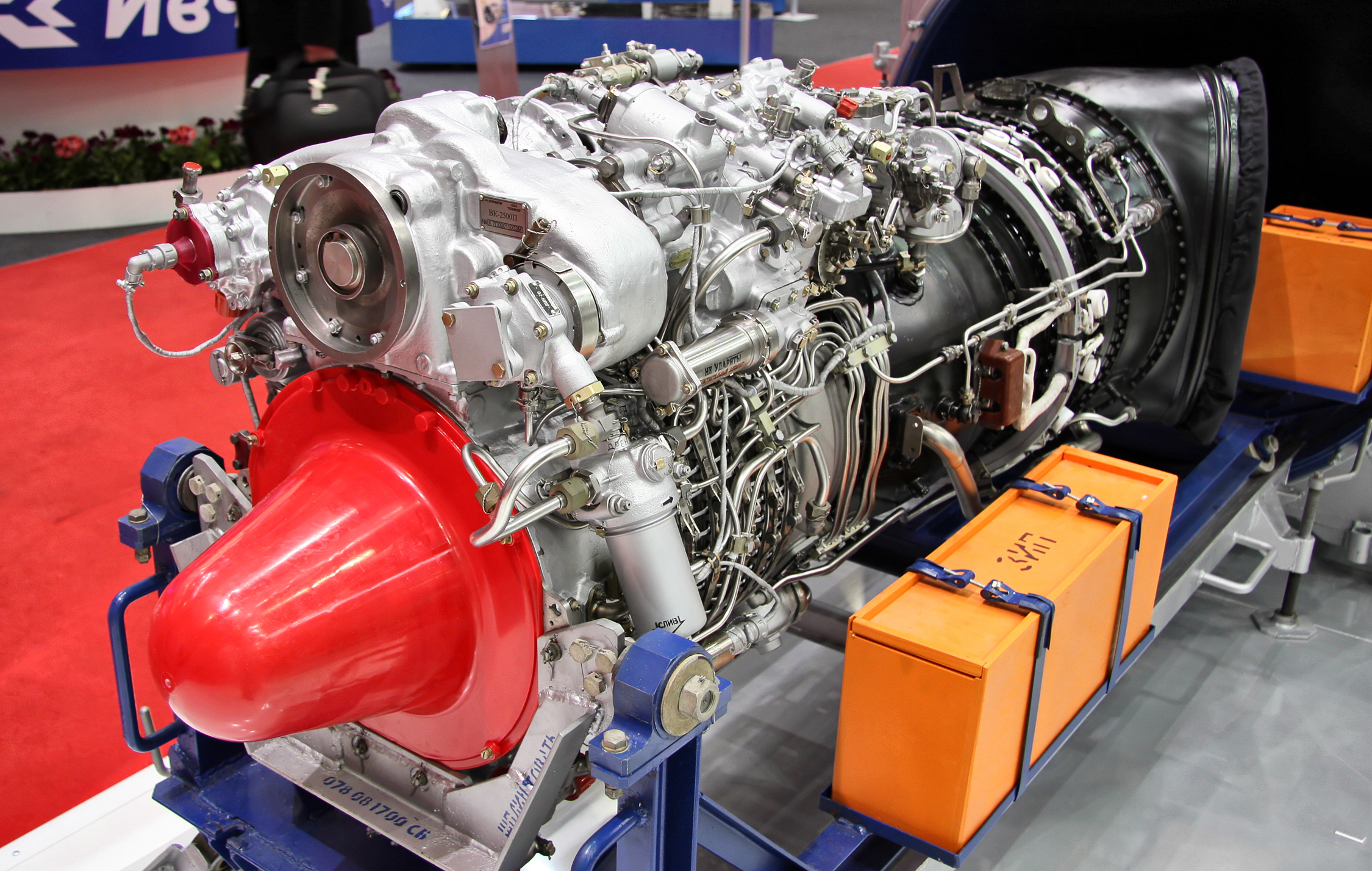 VK-2500P/PS engine for Ka-52 in 4rd International Helicopter Industry Exhibition HeliRussia 2011Tiếng Việt: Động cơ tuốc bin trục Klimov VK-2500 dành cho Ka-52 tại Triển lãm trực thăng quốc tế HeliRussia 2011